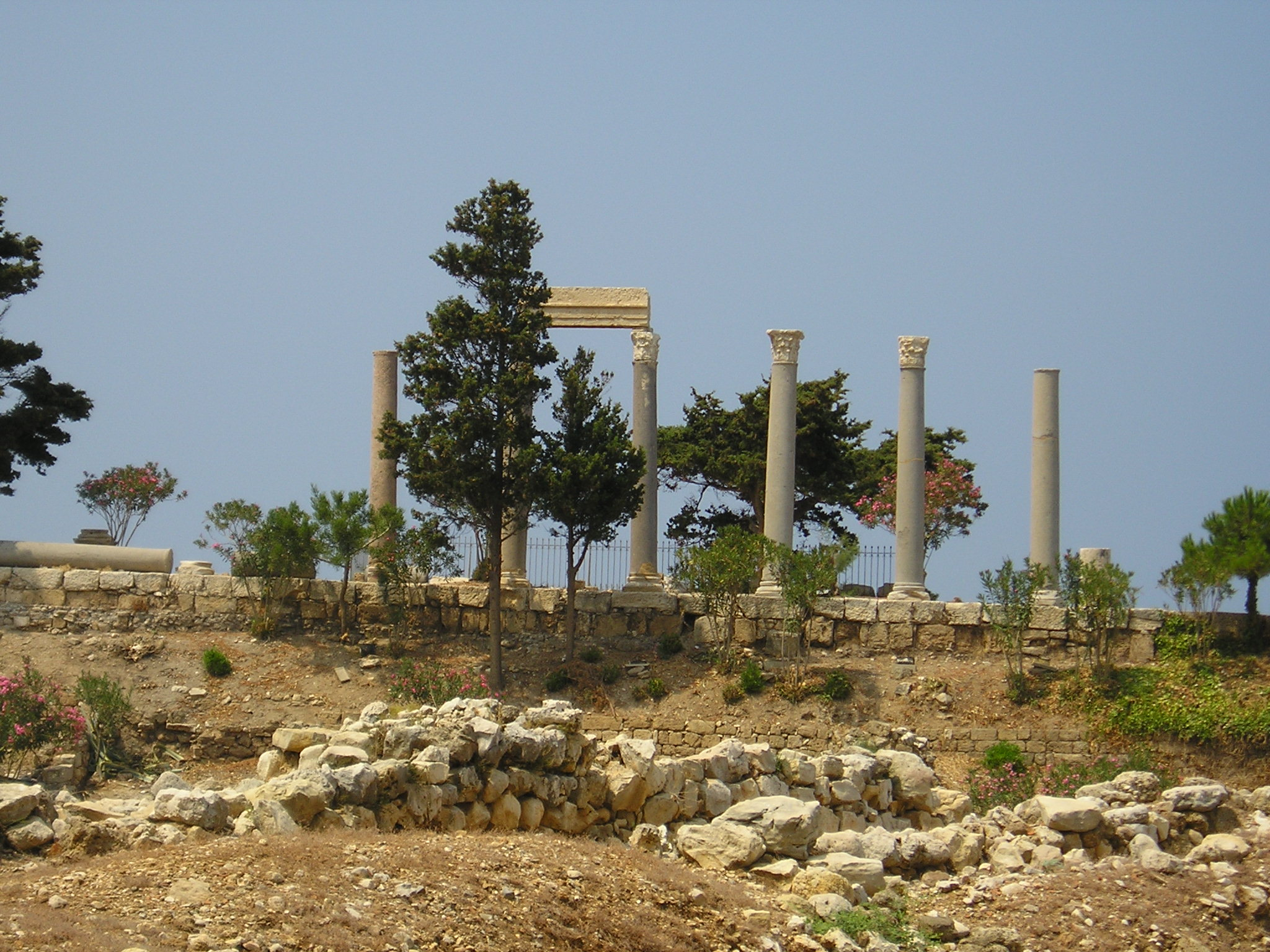 Byblos, Lebanon - 6 remaining columns of the Roman colonnaded street